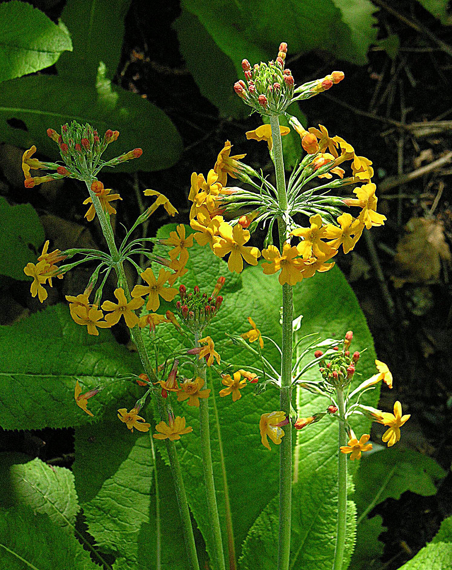 Known in garden circles as the Amber Candelabra Primrose, this species is native to the mountains of southeast Asia. Van Dusen Gardens, Vancouver.